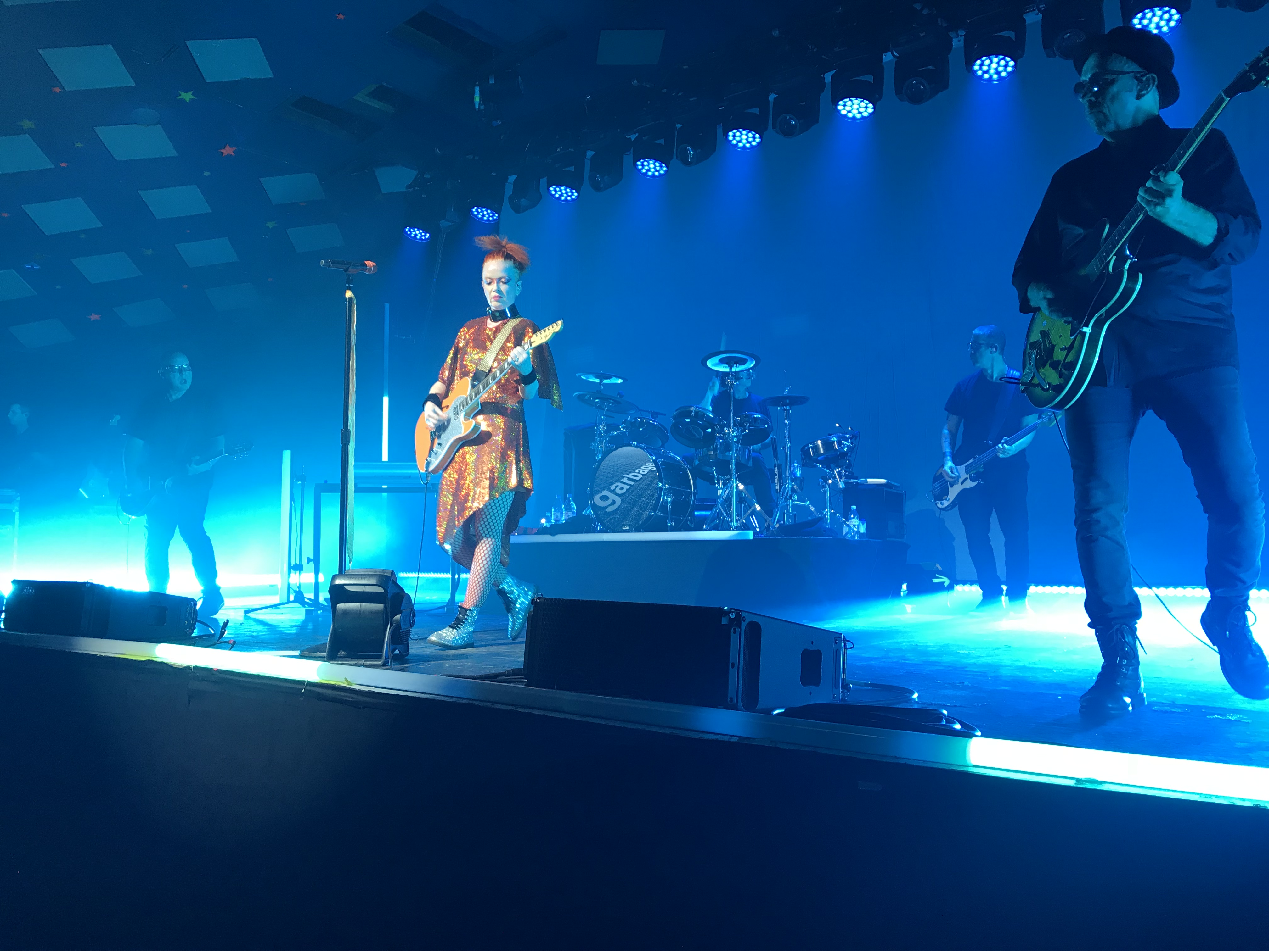 Garbage performing onstage as part of the 20 Years paranoid tour. Shows the stage ste up.